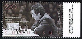 Tigran Petrosian at the chessboard